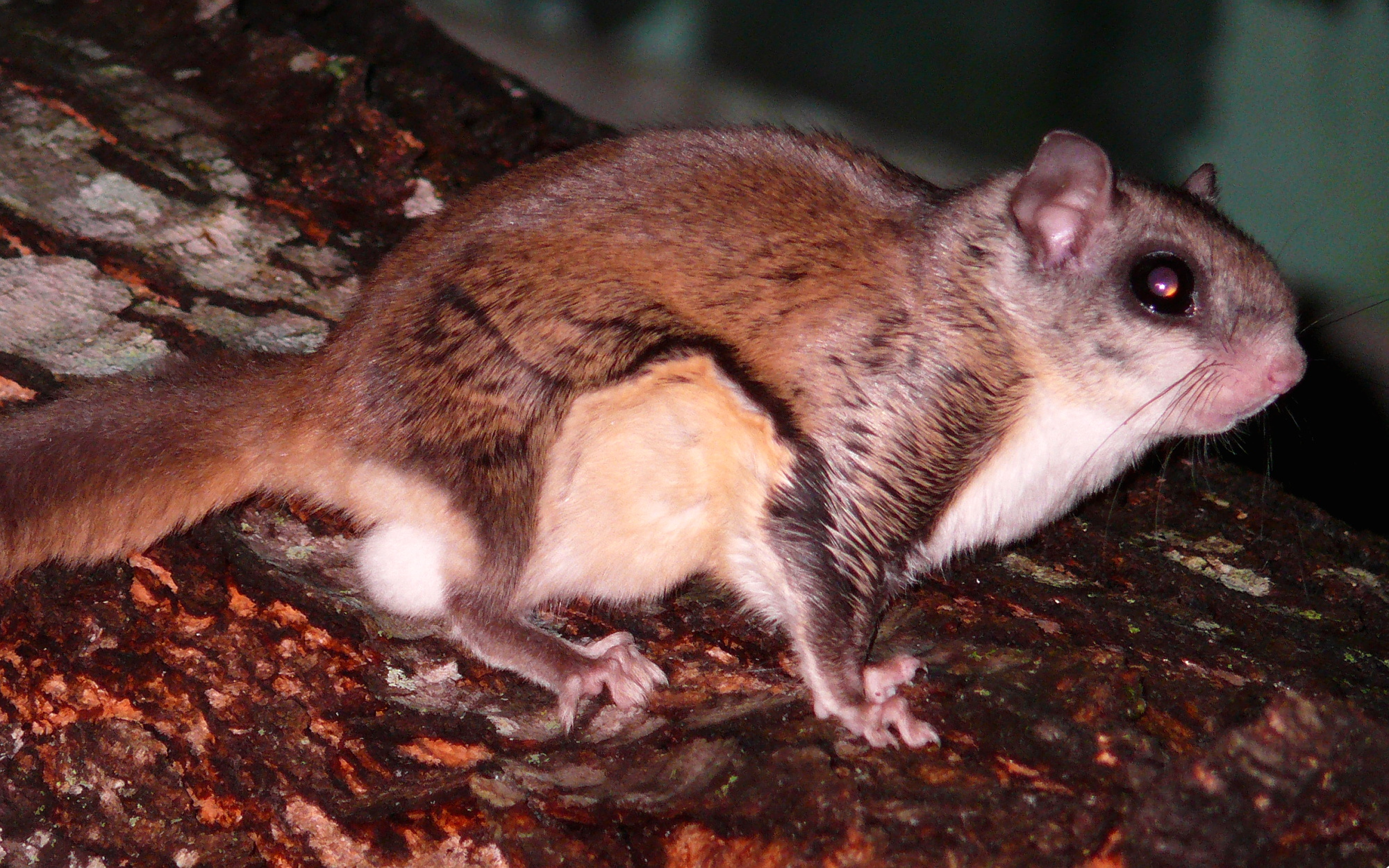 A Southern flying squirrel (Glaucomys volans) in the branches of a Red maple tree.Photo taken with a Panasonic Lumix DMC-FZ50 in Caldwell County, NC, USA.